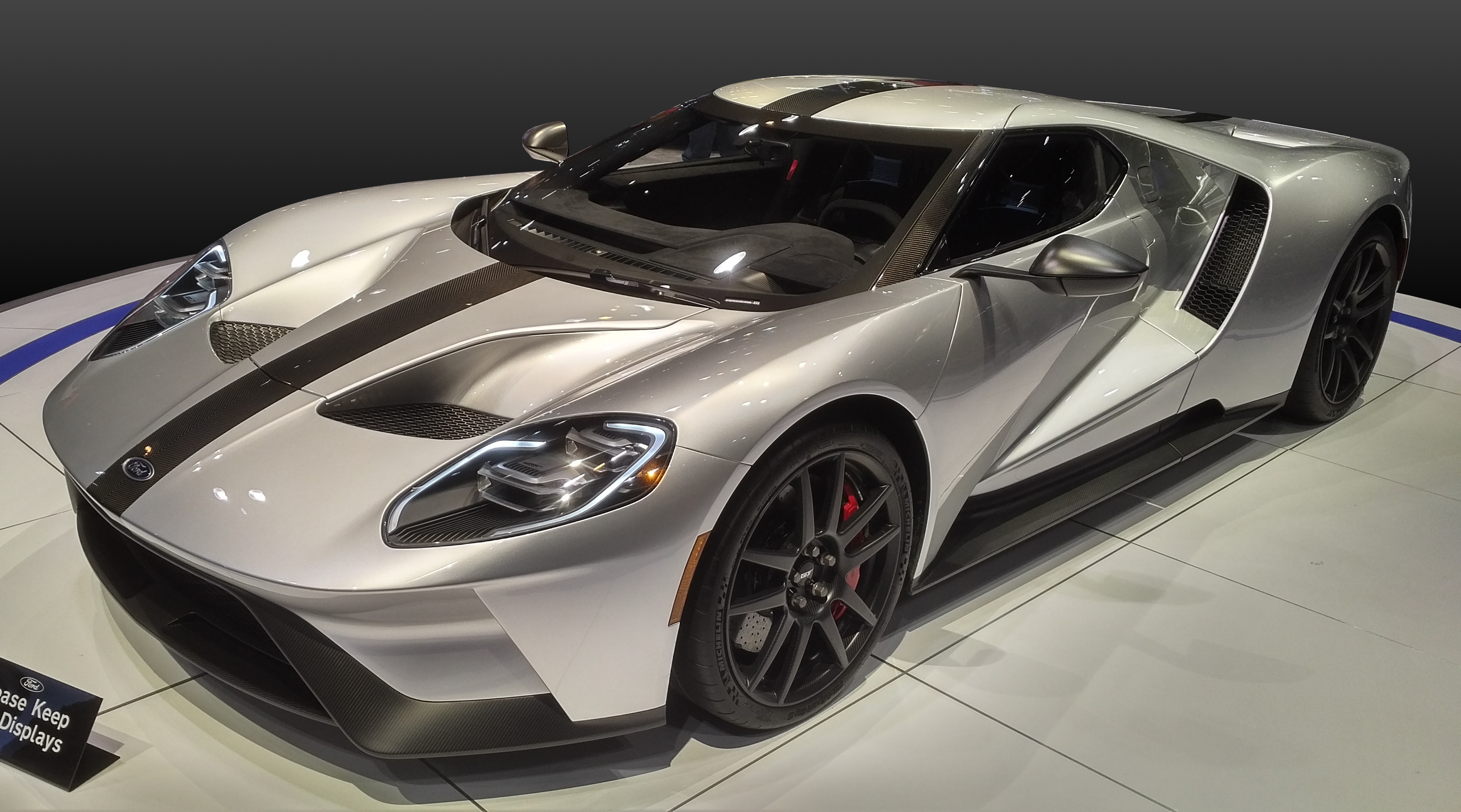 2018 Ford GT at the Chicago Autoshow.